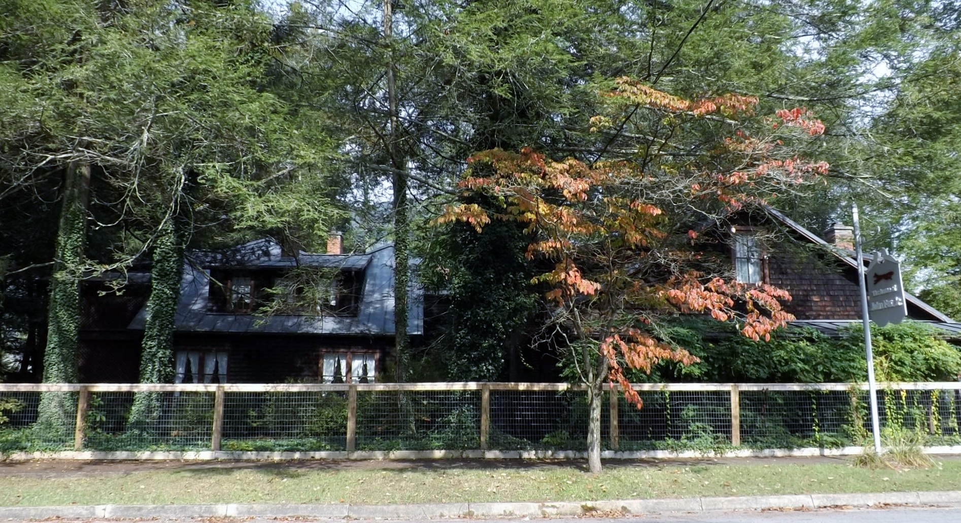 John Fox, Jr. House, 117 Shawnee Ave. Big Stone Gap